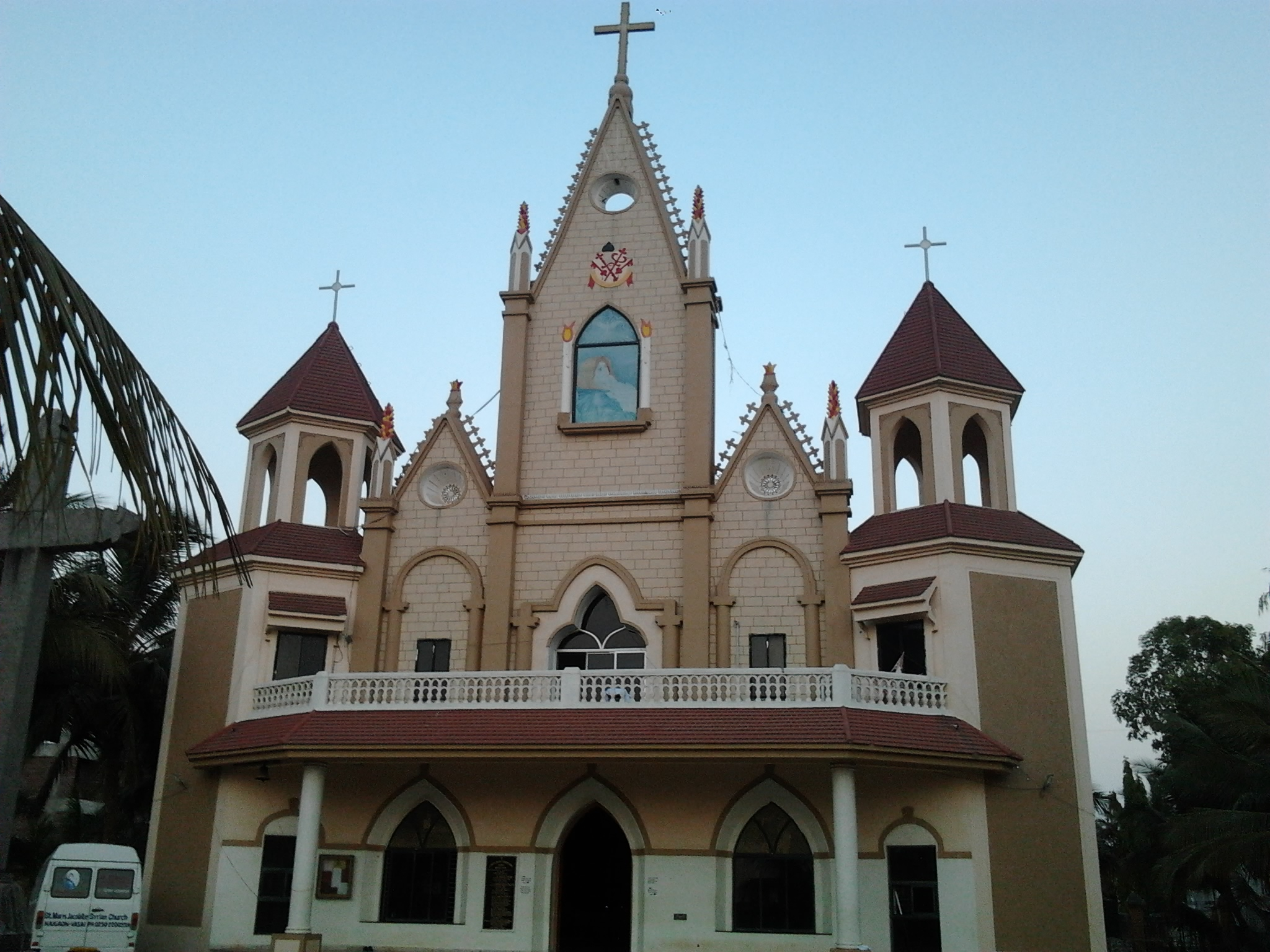 This church is part of Malankara Jacobite church, head quatered in Antioch , Syria